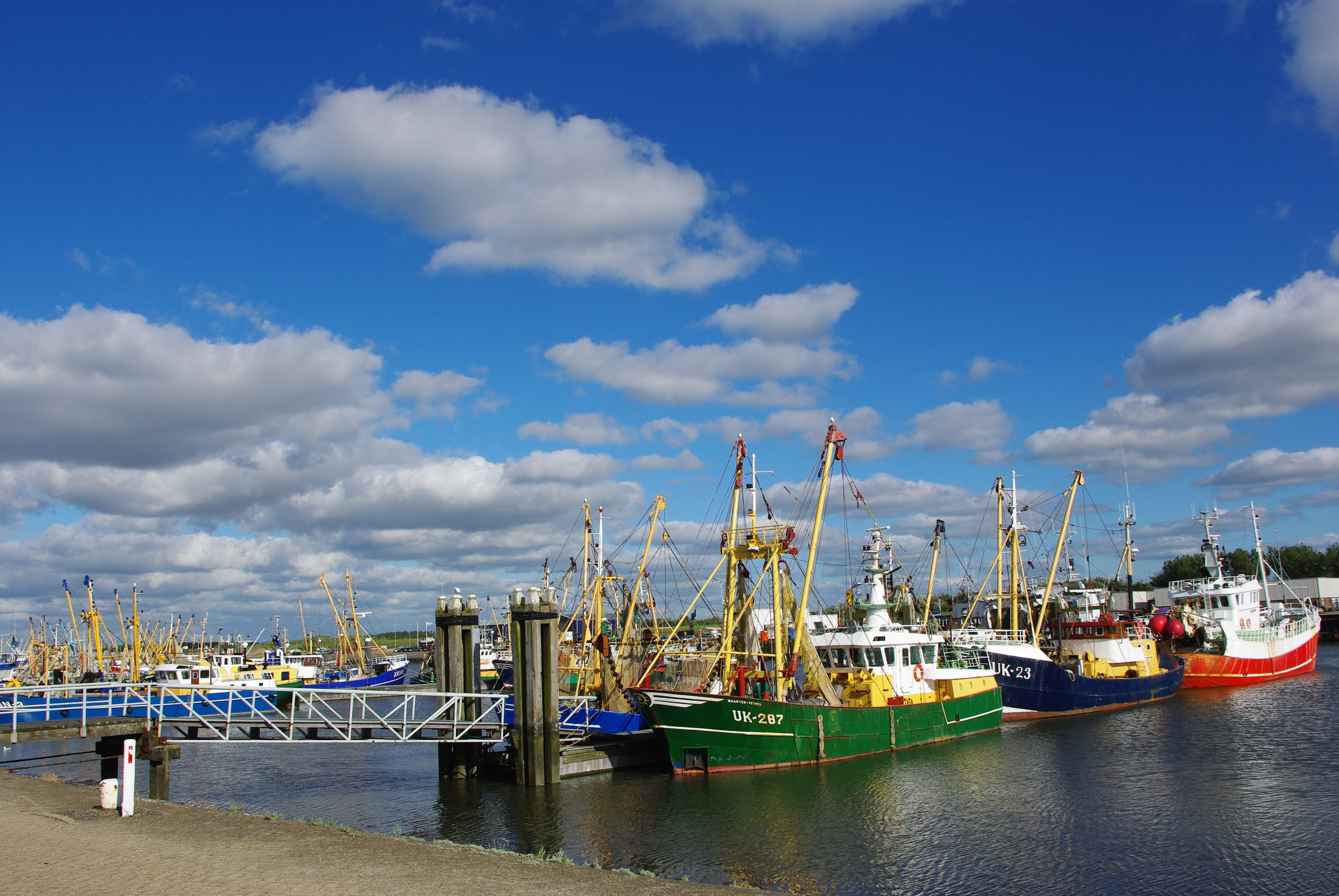 Lauwersoog